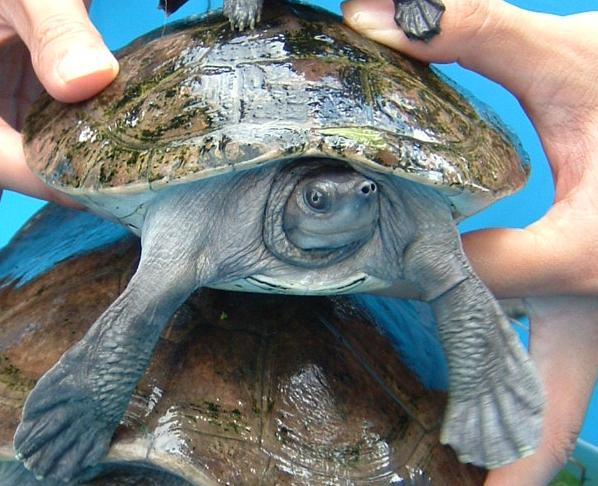 By Mohd Hafiz Noor Shams; User __earth. February 2006. (from en.wiki) Three terrapins (Batagur affinis) at a gazetted conservation site at Kuala Berang, Terengganu, Malaysia.